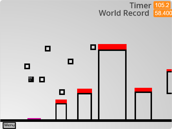 A screenshot of a simple platformer game created on Scratch, where a cube is the protagonist. Here, a level demonstrates the basic components of platformers: Platforms to jump on and hazards (red rectangles) to avoid